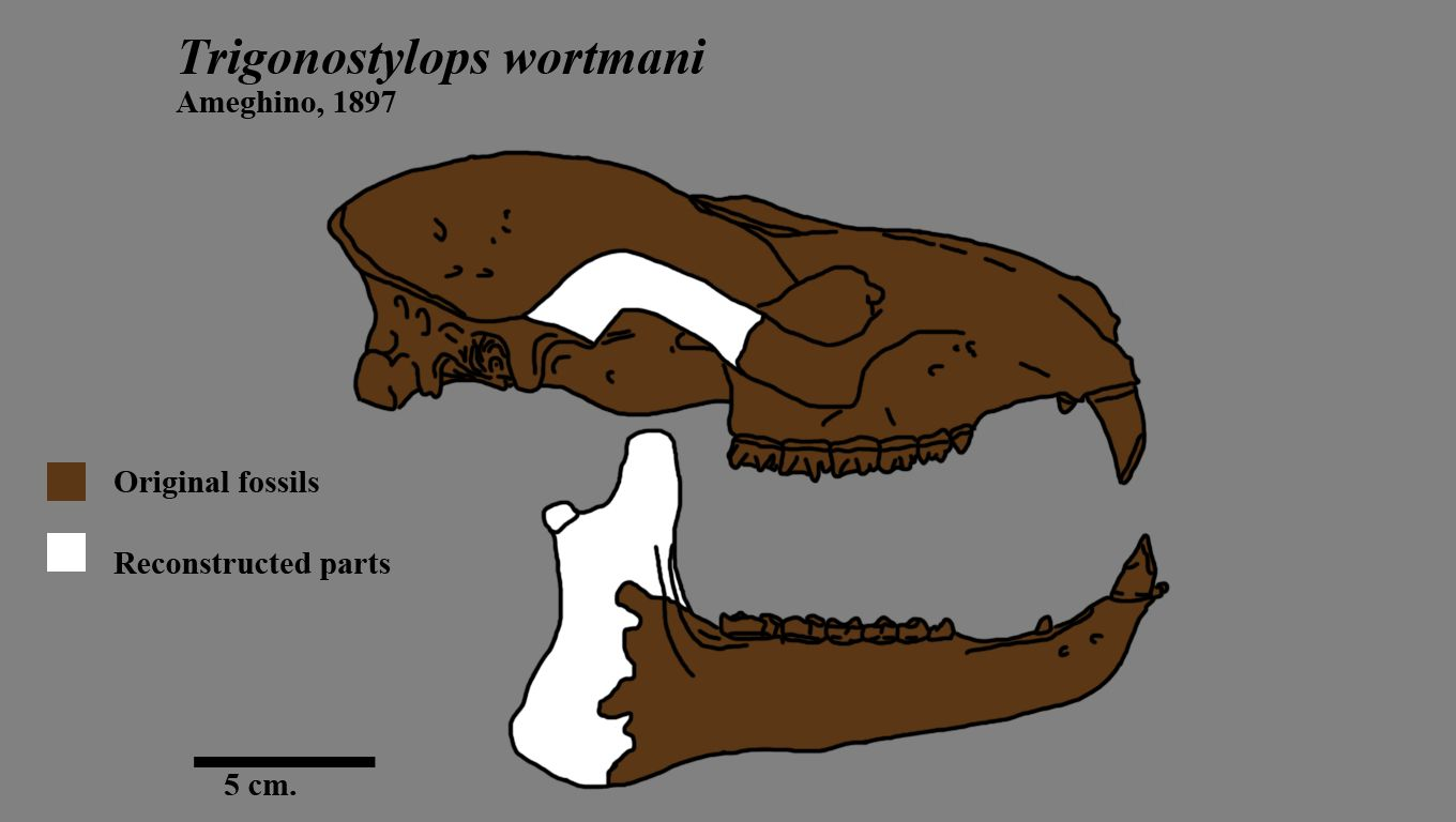 Reconstruction of the skull of Trigonostylops wortmani, based in the work of Mariano Bond, 1984.